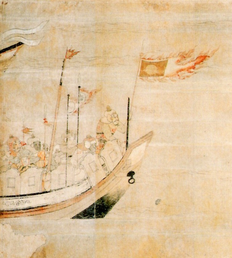 Mōko Shūrai Ekotoba e18